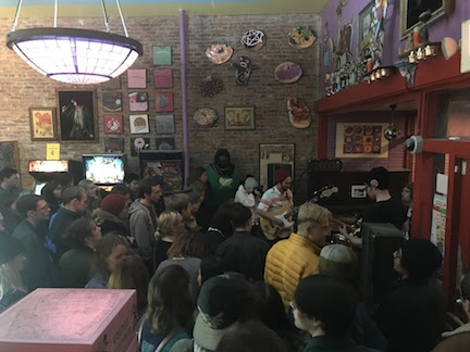 Voodoo Show during our last touring cycle